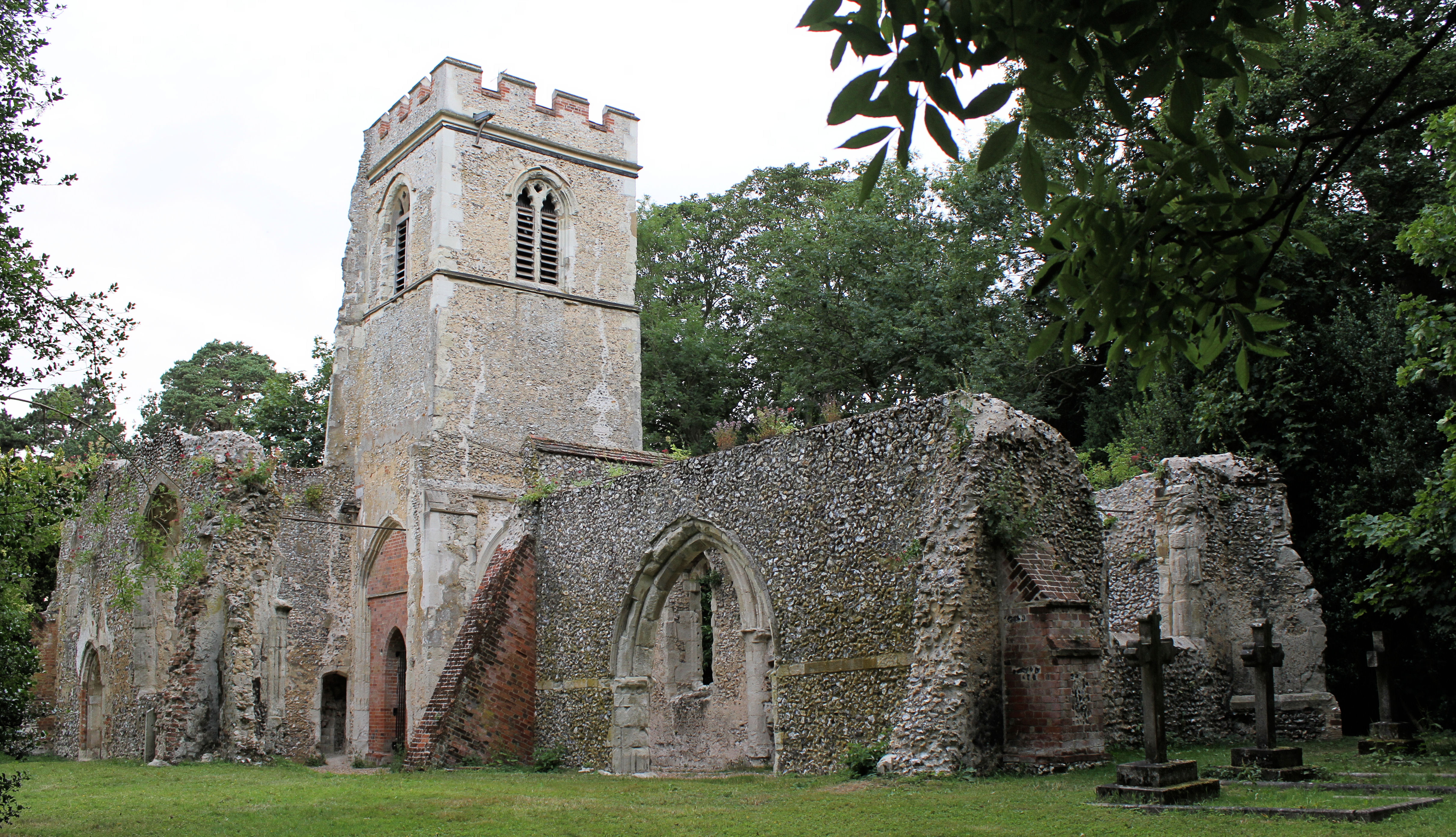 Ruins of old church at Ayot St. Lawrence